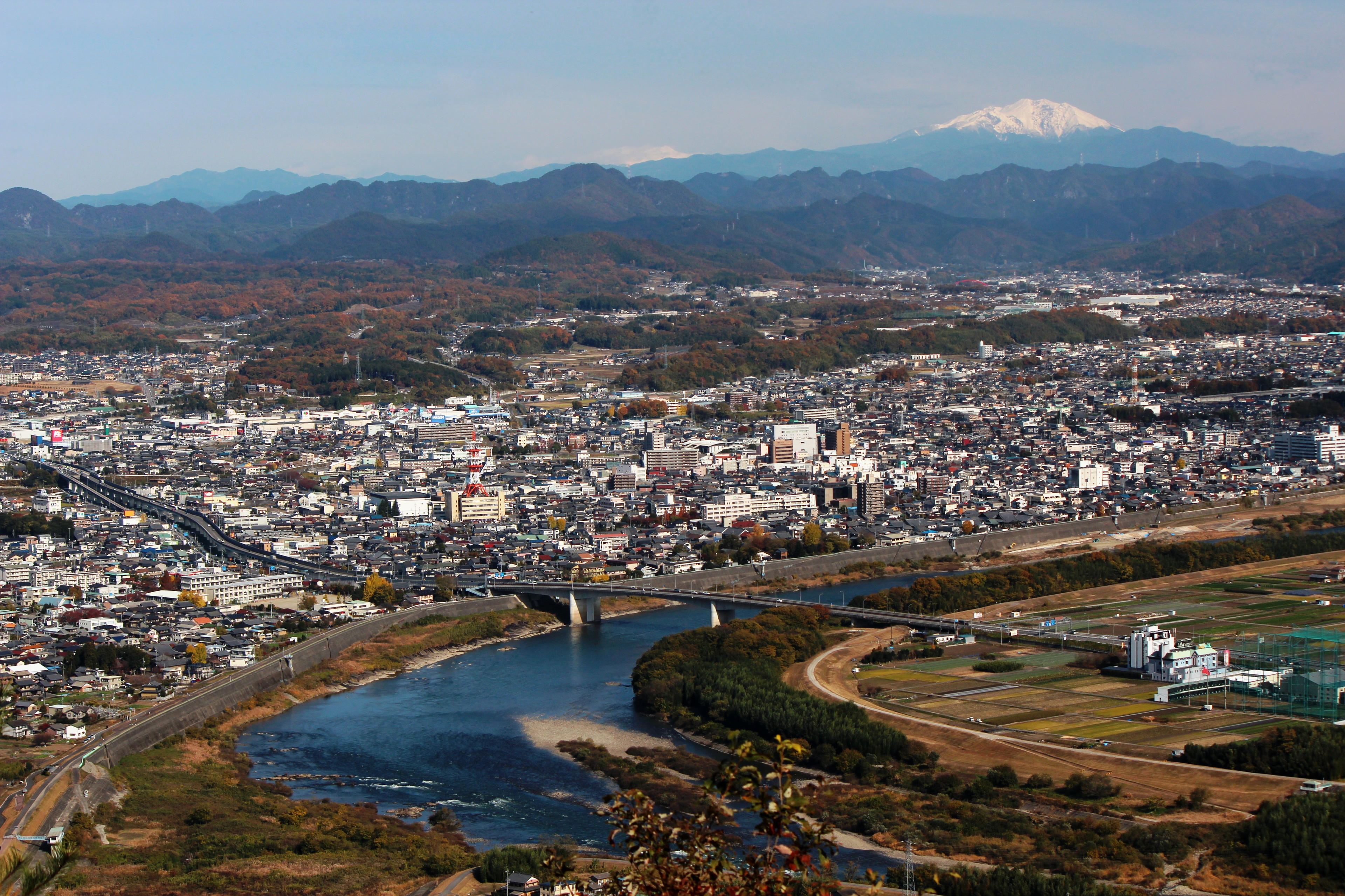 Minokamo, Gifu, Kiso River and Mount Ontake from Mount Hatobuki